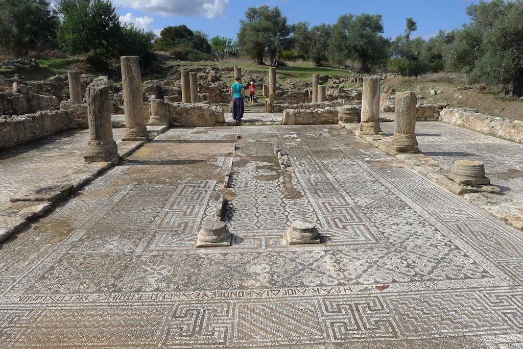 Ruins of Ayia Trias, Cyprus.